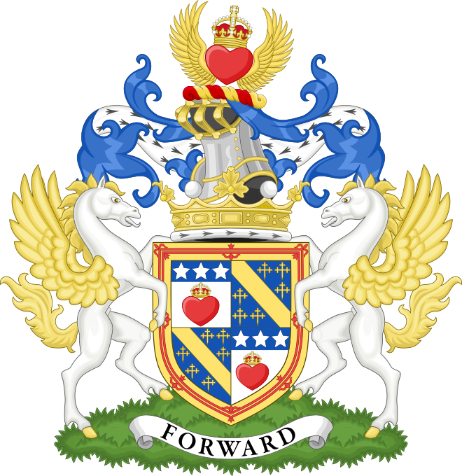 coat of arms of the marquess of Queensberry Arms. Quarterly: 1st and 4th, Argent a Human Heart Gules imperially crowned proper on a Chief Azure three Mullets of the field (Douglas); 2nd and 3rd, Azure a Bend between six Cross Crosslets fitchée Or (Mar), the whole within a Bordure of the last charged with a Double Tressure flory counter-flory of the second. Crest. A Human Heart Gules imperially crowned proper within two Wings Or. Supporters. On either side a Pegasus Argent winged maned and hoofed Or. Motto. Forward. Cracroft's Peerage